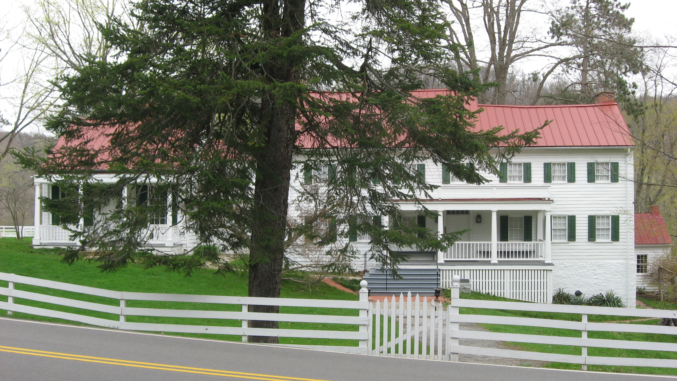 Front of the Alexander Campbell Mansion, located on the northern side of West Virginia Route 67 on the eastern edge of Bethany, West Virginia, United States. Built in 1793 and the home of Alexander Campbell, it has been declared a National Historic Landmark, and it is part of a historic district, the Bethany Historic District, that is listed on the National Register of Historic Places.